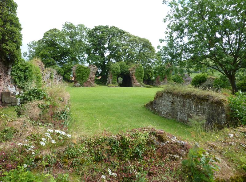 Lindores Abbey, near Newburgh, Fife, Scotland